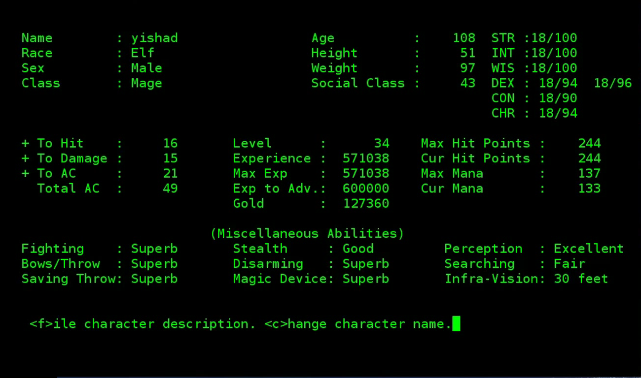 Author Ben Asselstine. Screenshot taken in March 2012 from desktop recording in GNOME